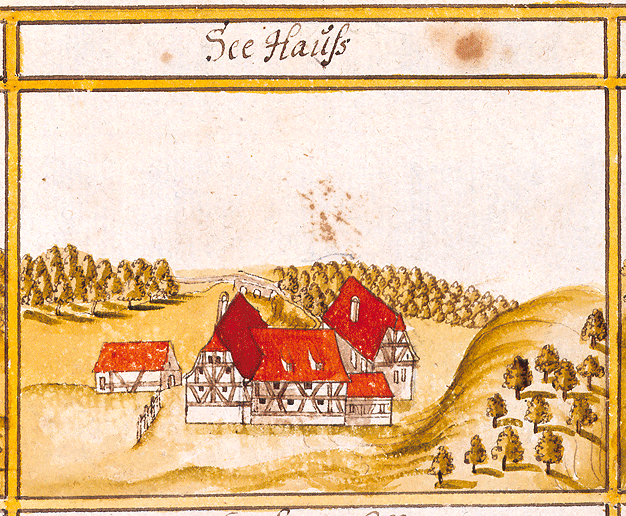 View of Seehaus, Leonberg, from the forest register books created by Andreas Kieser